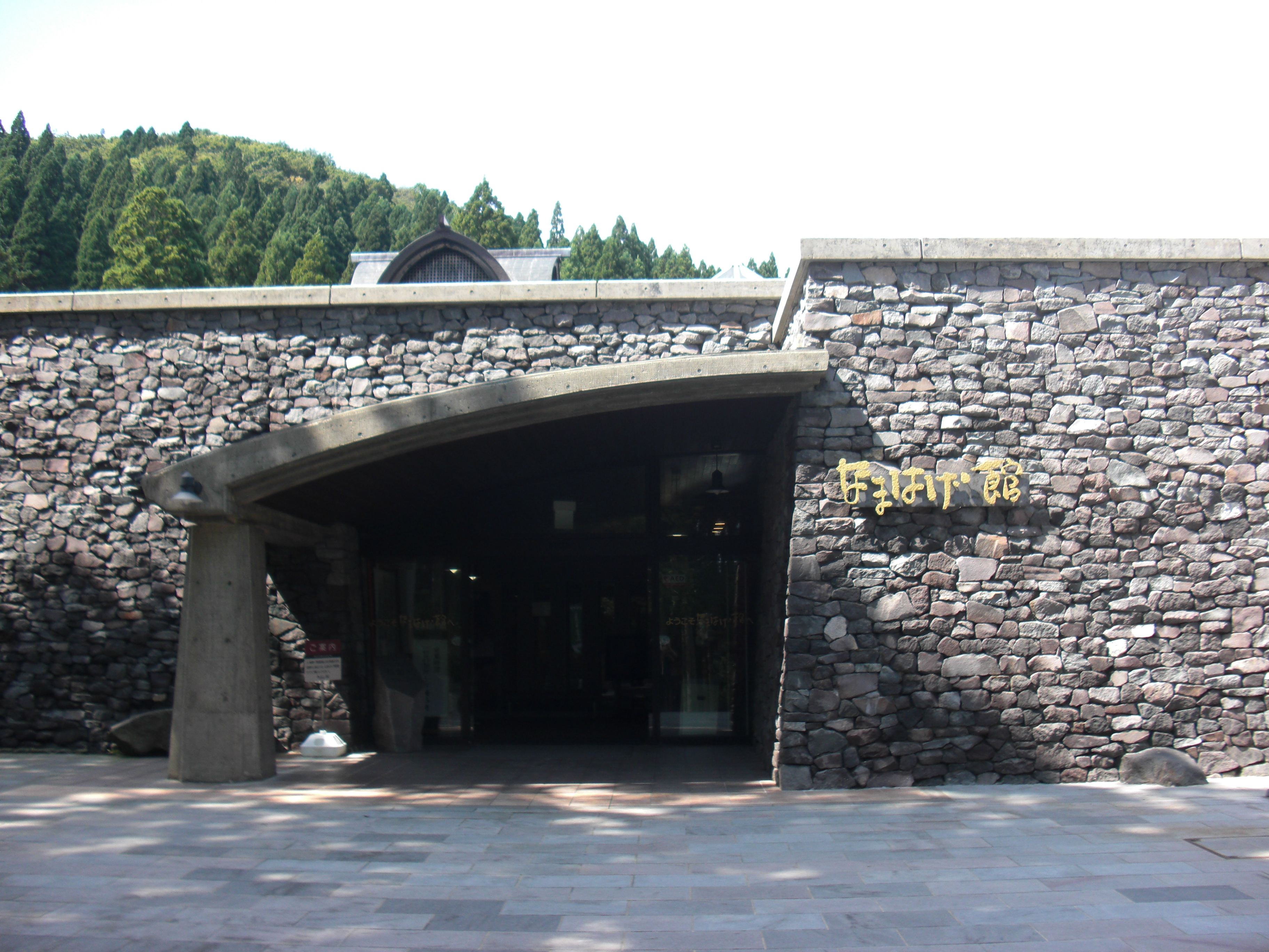 The entrance of Namahage Museum at Oga, Akita, Japan.